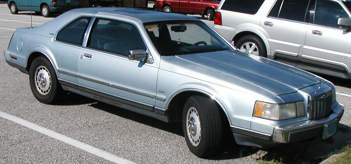 1984-1992 Lincoln Continental Mark VII photographed in USA.